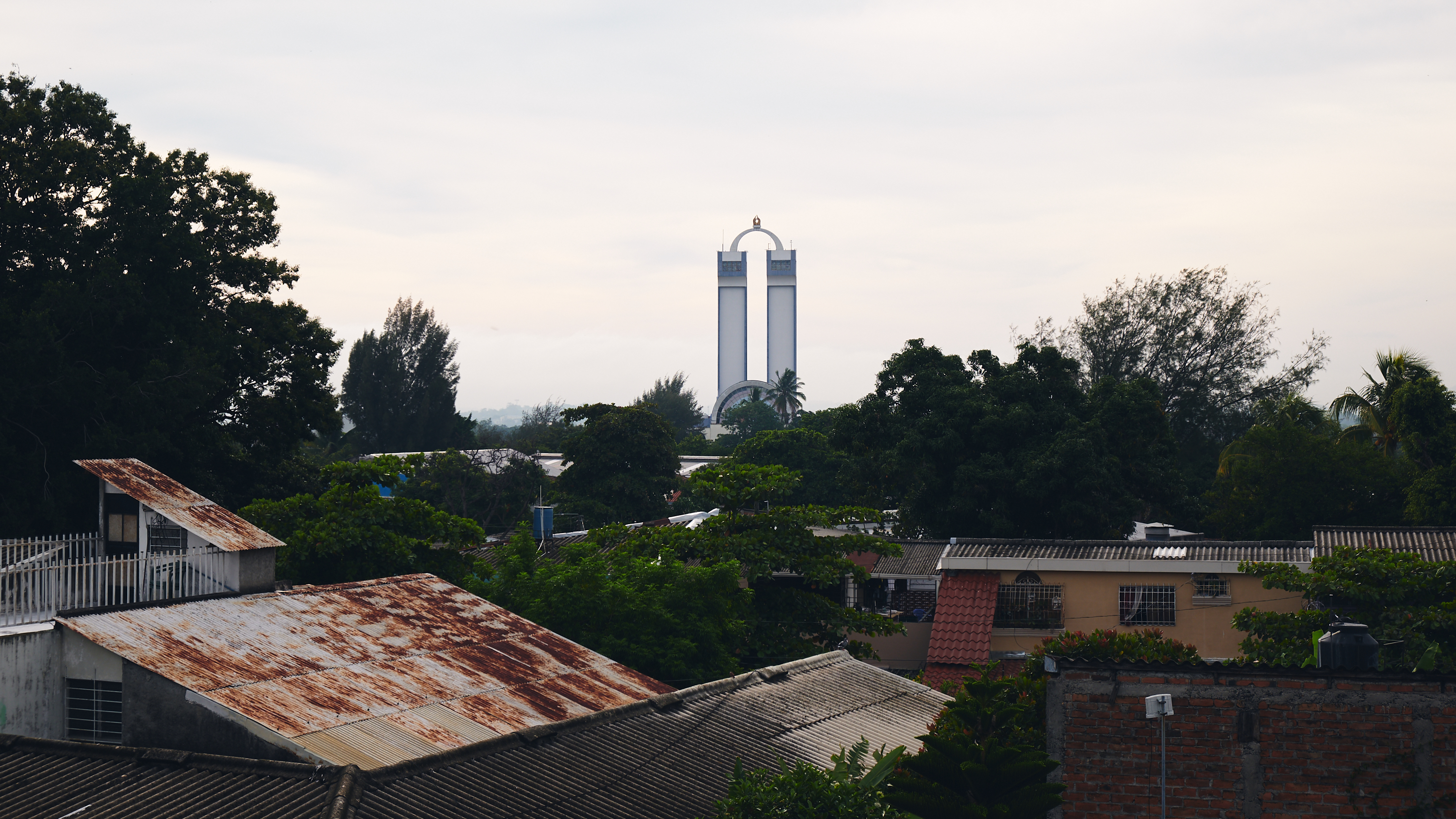 Southwest face of the San Salvador, El Salvador Luz del Mundo church during the early morning hours. The church's unique design features identical towers connected at the top by an arch with an icon of the Luz del Mundo denomination.